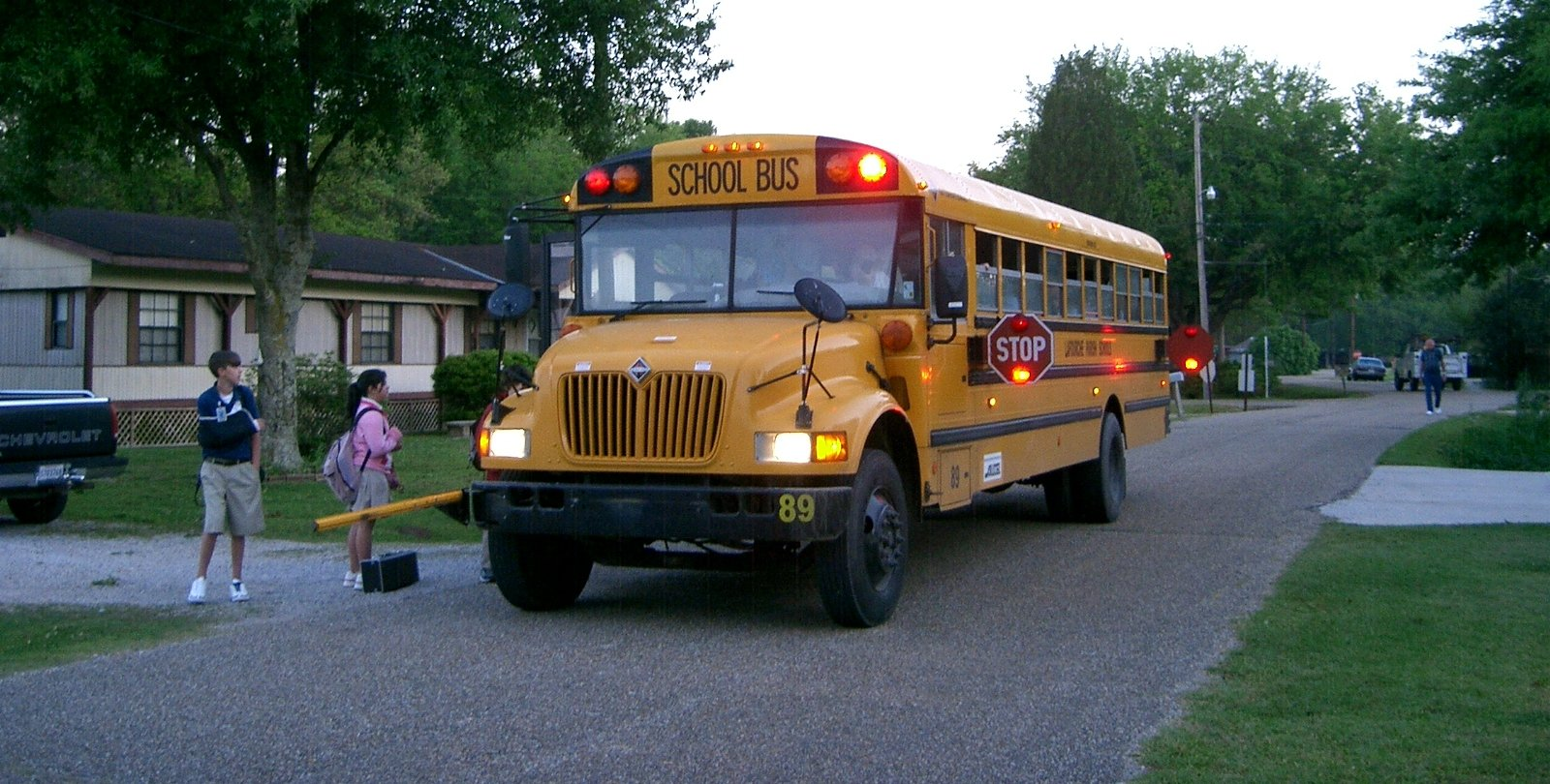 School bus - Thibodaux - Louisiane self made PRA